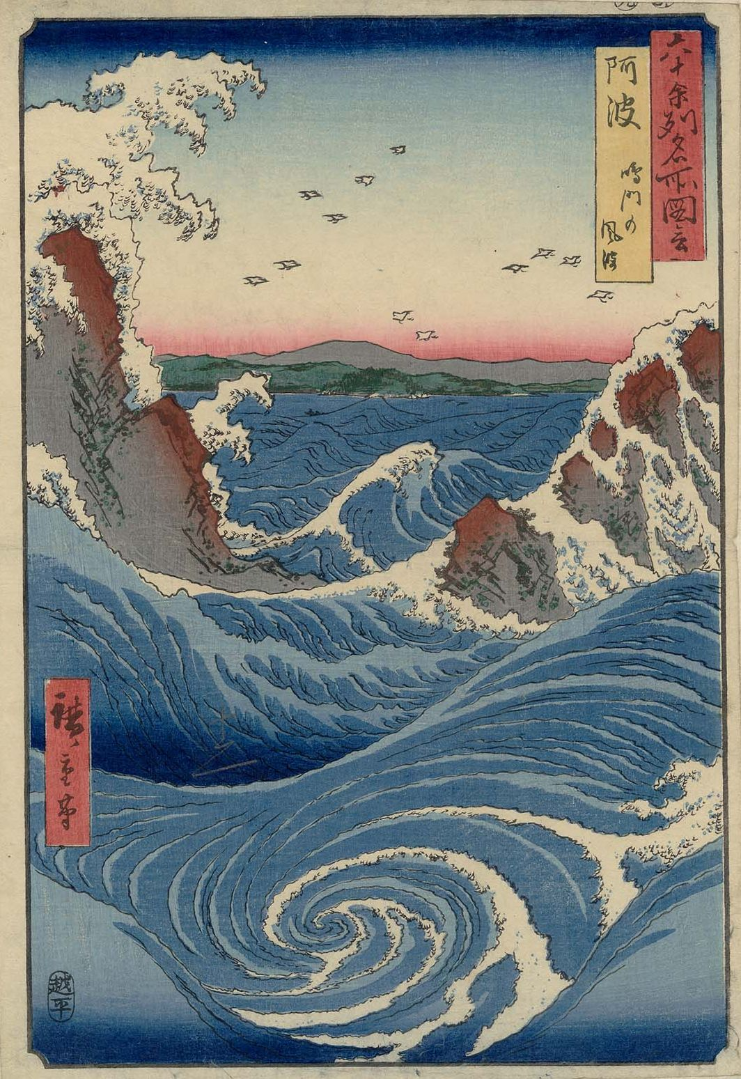 Part of the series Famous Places in the Sixty-odd Provinces, No. 55 (Nankaidō group)